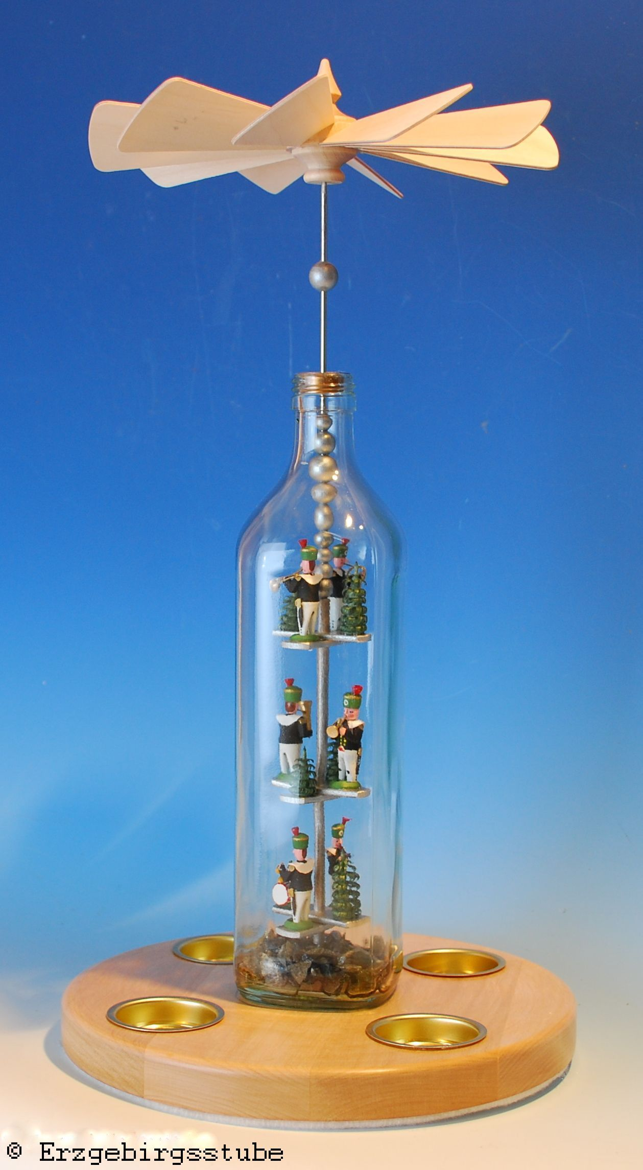 A Pyramid in a bottle from Erzgebirge/Germany.